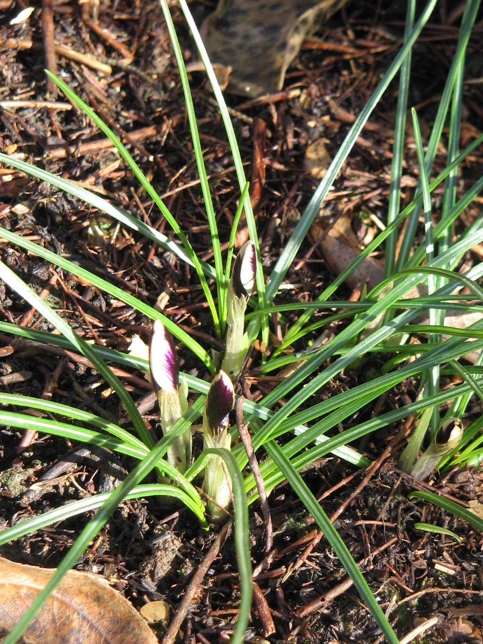 Crocus minimus opening